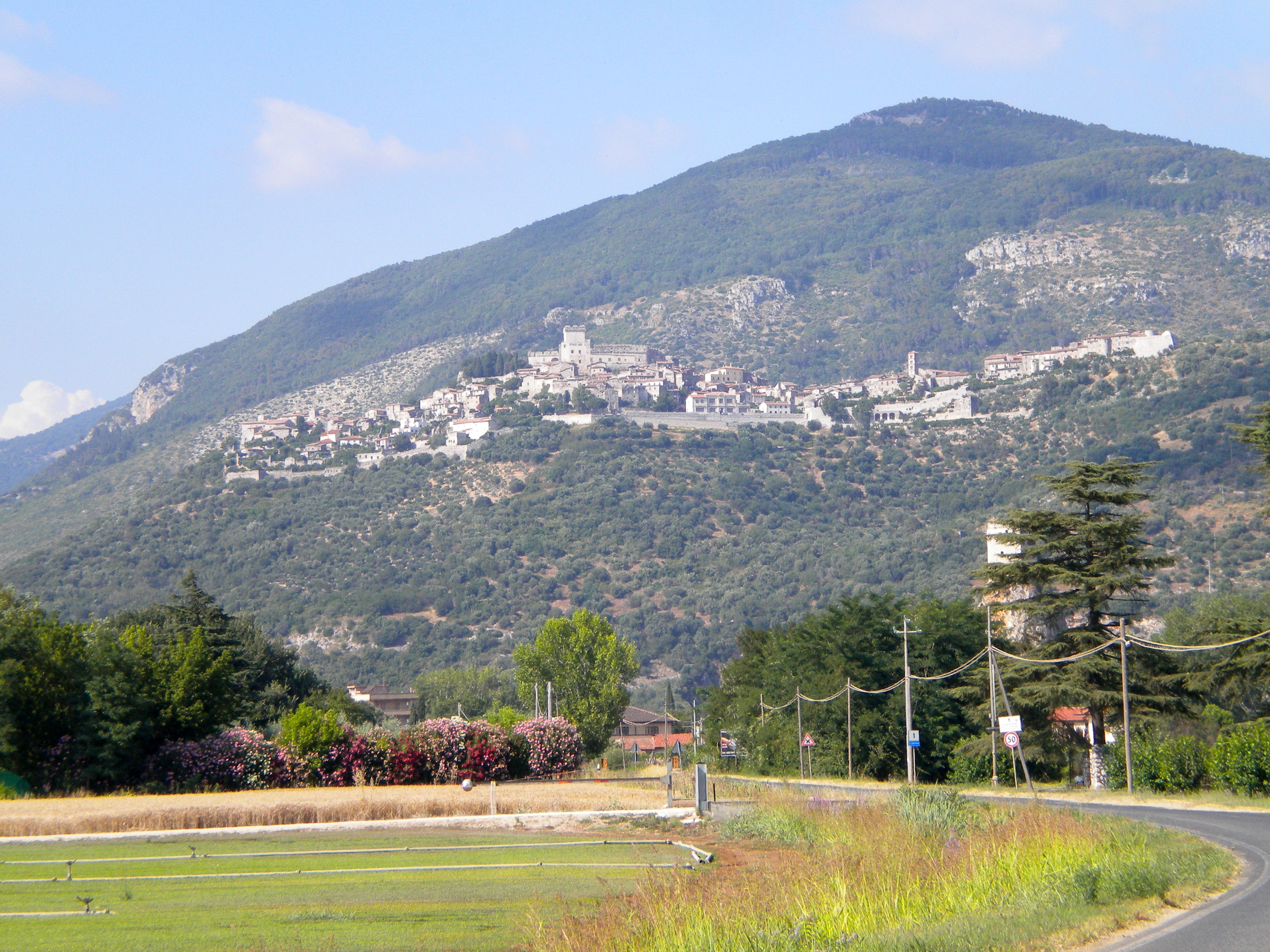 04013 Sermoneta, Province of Latina, Italy